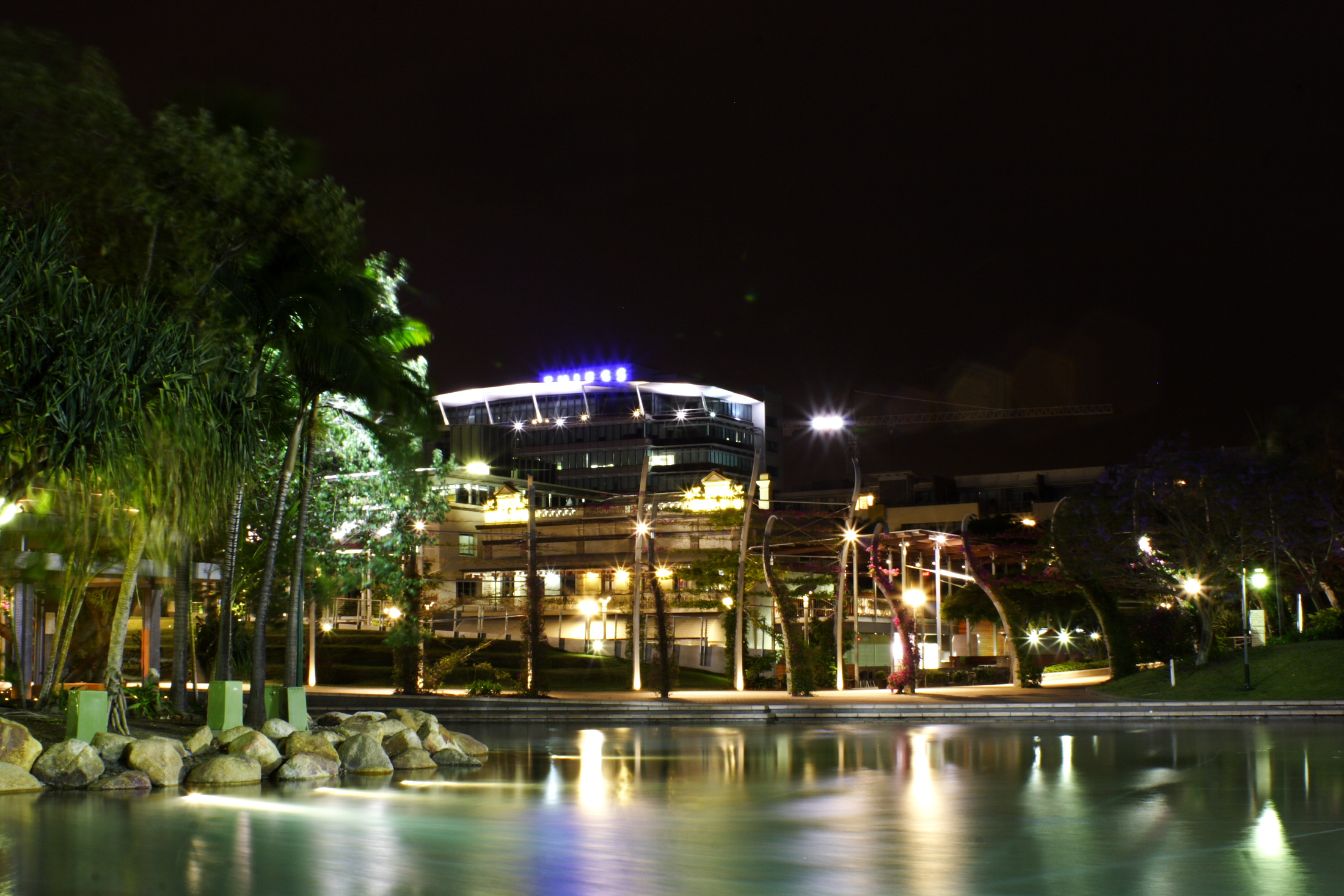 Southbank Parklands Lagoon